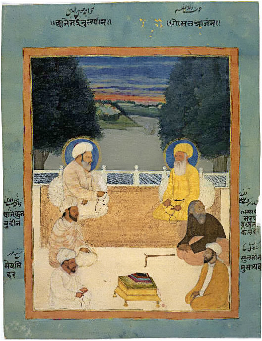 Six Sufi masters: Khvaja Mu'in al-Din, Ghaus al-A'zam, Khvaja Qutb al-Din, Shaikh Mihr, Shah Sharaf Bu 'Ali Qalandar and Sultan Musa Shaikh.A painting in opaque watercolor and gold